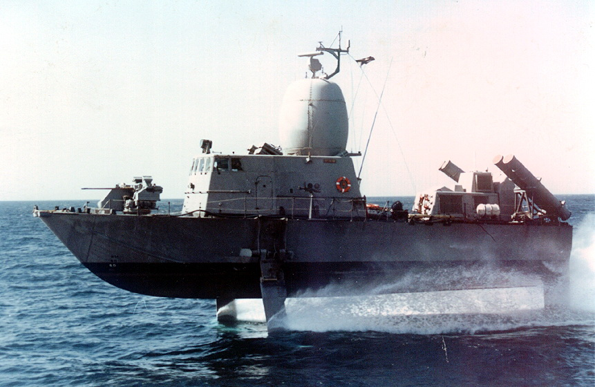 hydrofoil, Israel Defense Forces